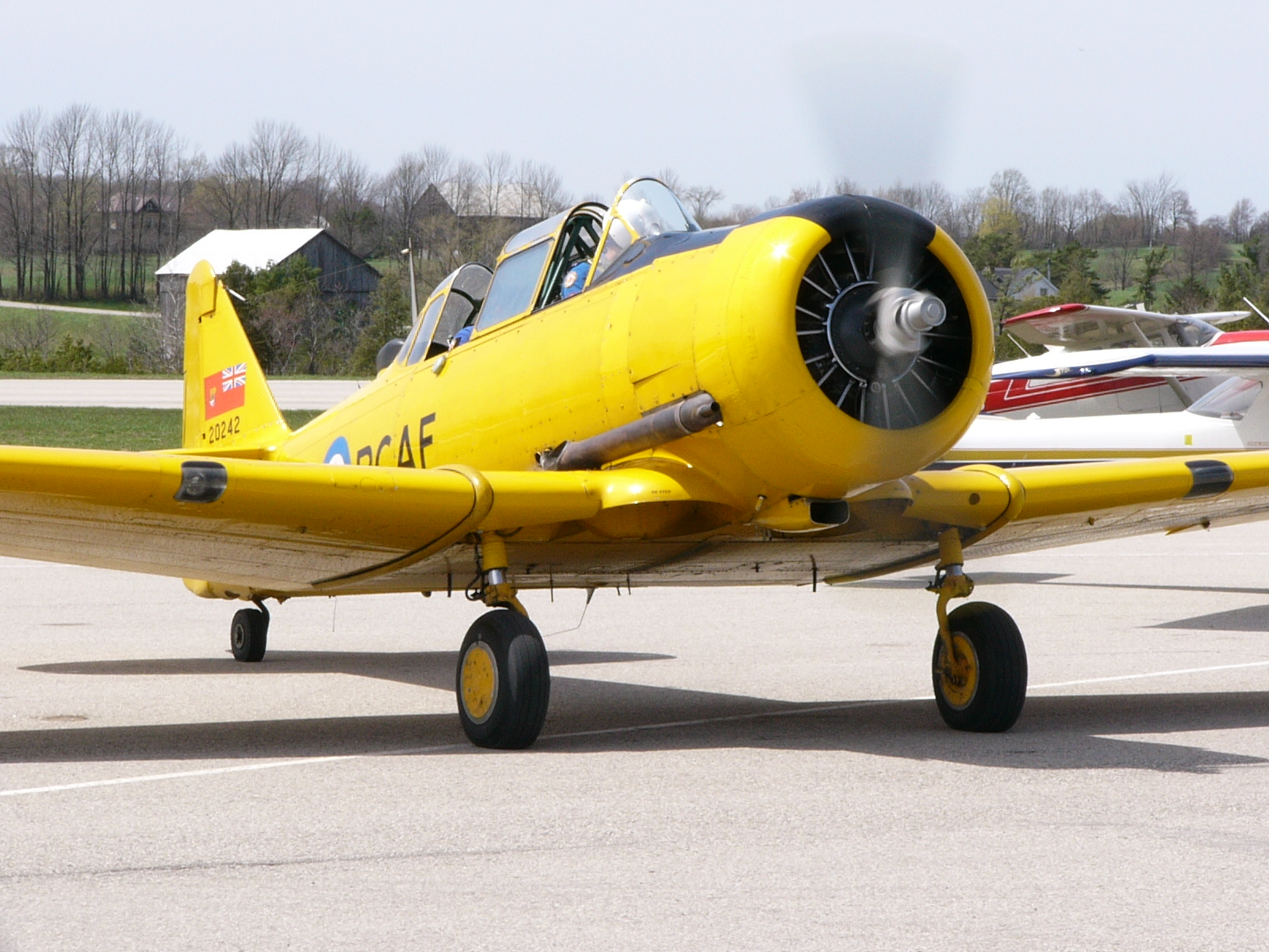 A Canadian Car & Foundry Harvard Mark 4 belonging to the Canadian Harvard Aircraft Association, seen at the Hanover, Ontario, Canada, COPA Rust Remover, 2004